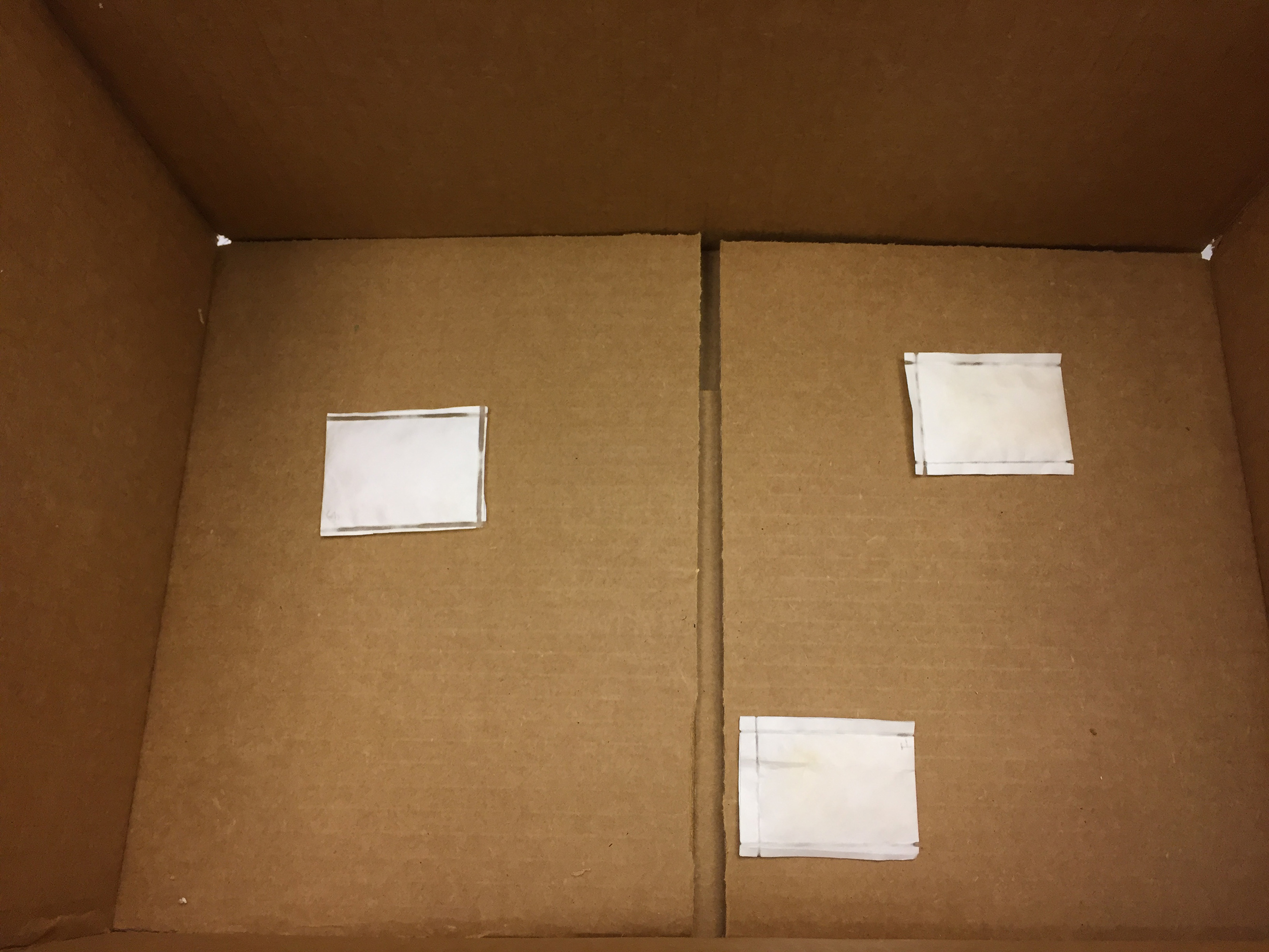 Chlorine dioxide pouches placed inside fruit-packing cartons kill pathogens but don’t damage fruit. USDA Image Number D3808-1